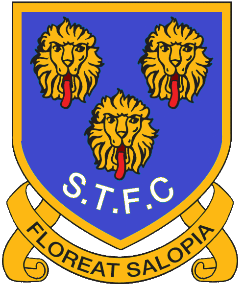 Logo used by Shrewsbury Town Football Club between 1993 and 2007. Can be freely reproduced as the club "have no control over the ‘loggerheads’ image rights"